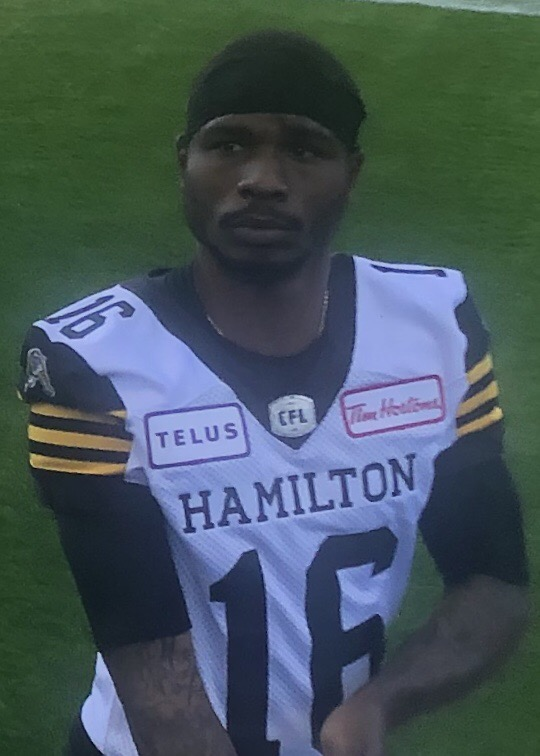 Brandon Banks, receiver and kick returner for the Hamilton Tiger-Cats.